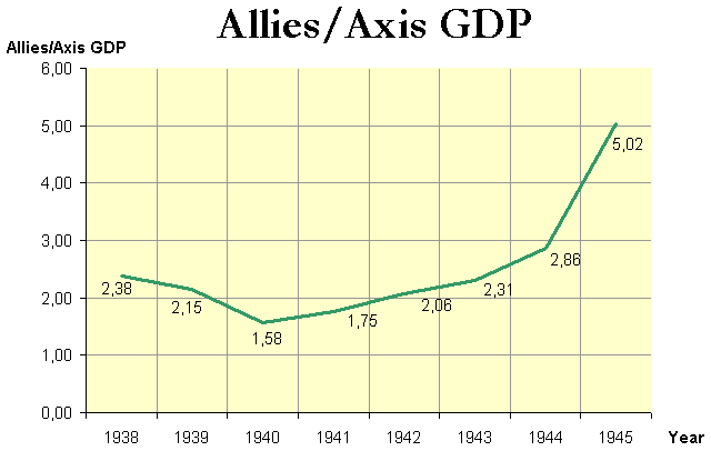 GDP comparison of Allies and Axis, with no notes to keep smaller